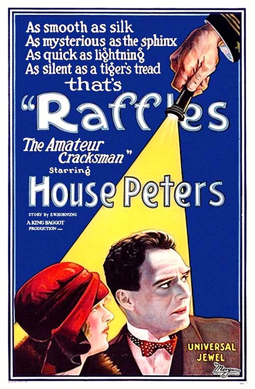 promotional poster for the american silent film Raffles (with House Peters & Miss DuPont)